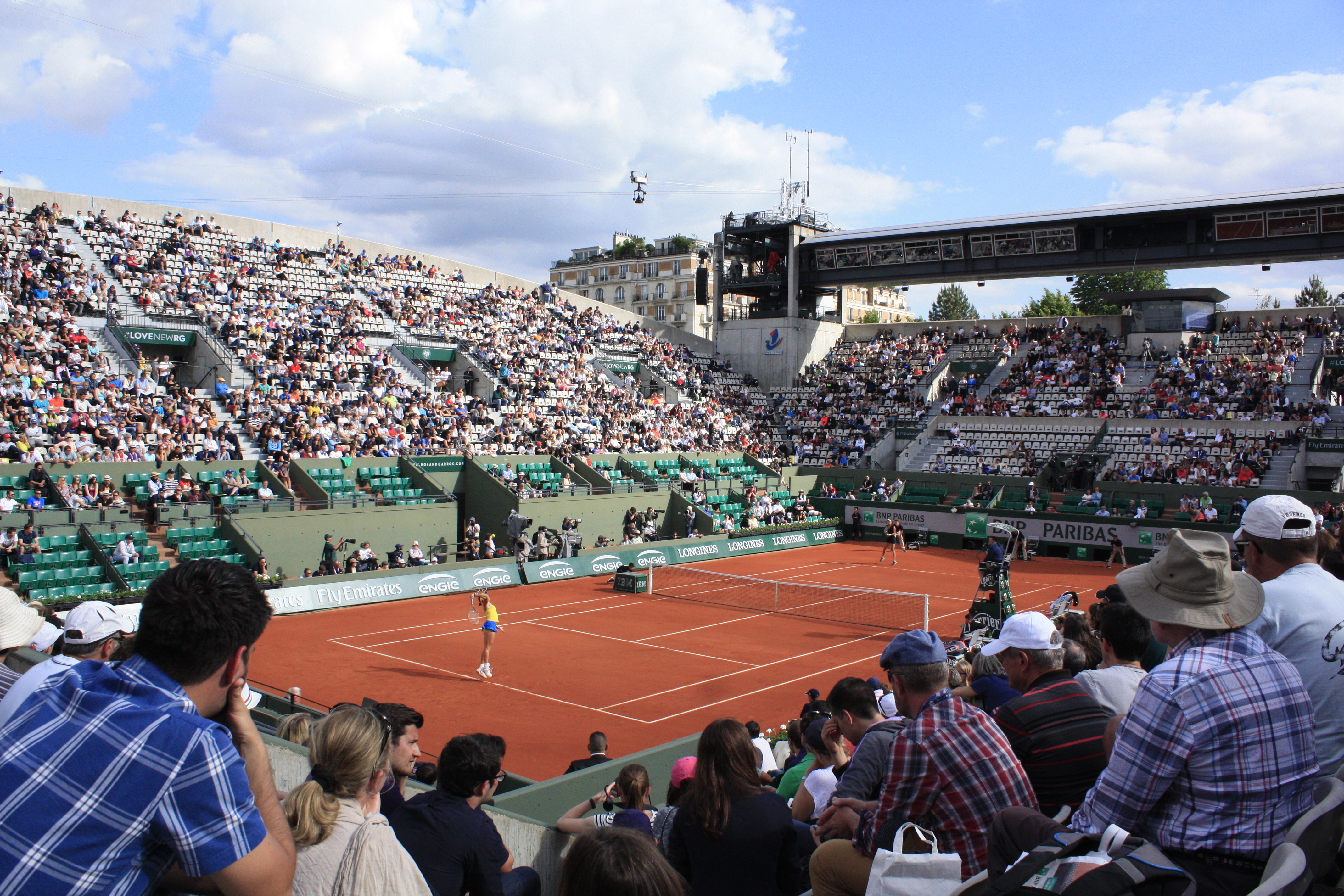 Ivanovic-Shvedova on the Suzanne Lenglen Court during the first round of the 2015 French Open.